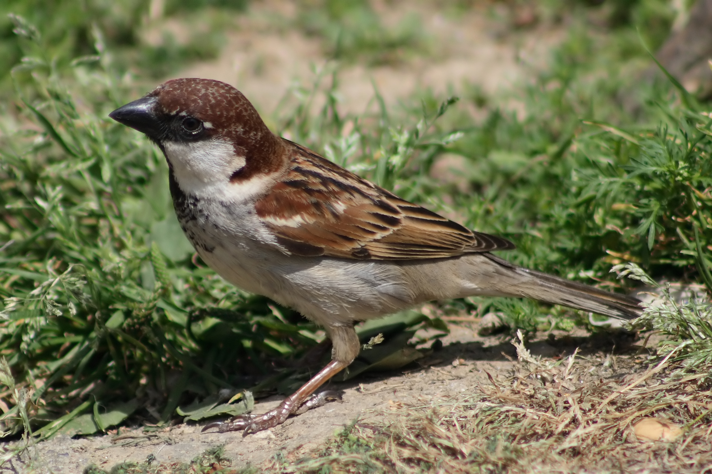 Male Italian Sparrow (Passer italiae). Montecatini Terme, Tuscany.